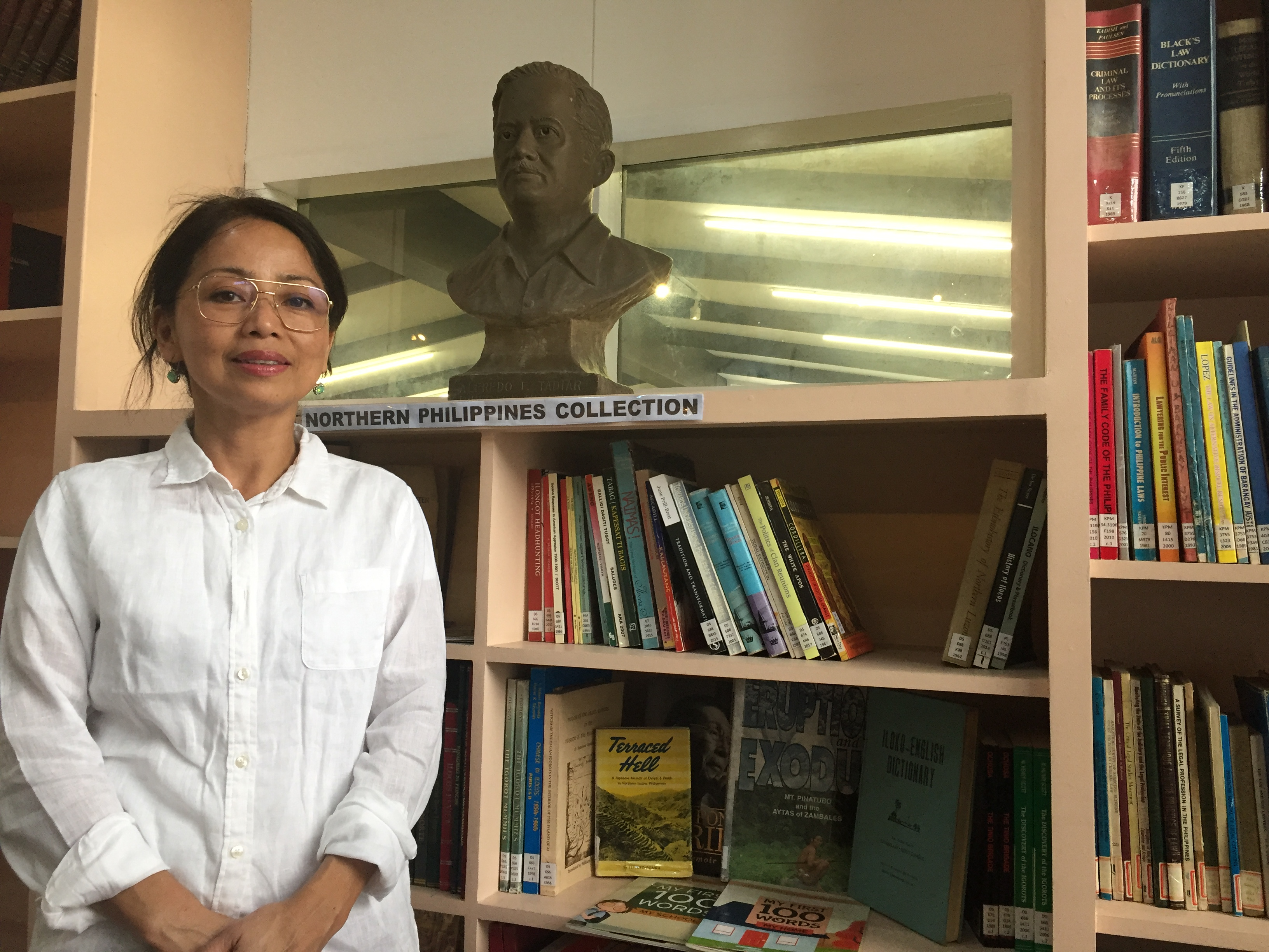 Neferti Tadiar in the library named in honor of his father, 2019